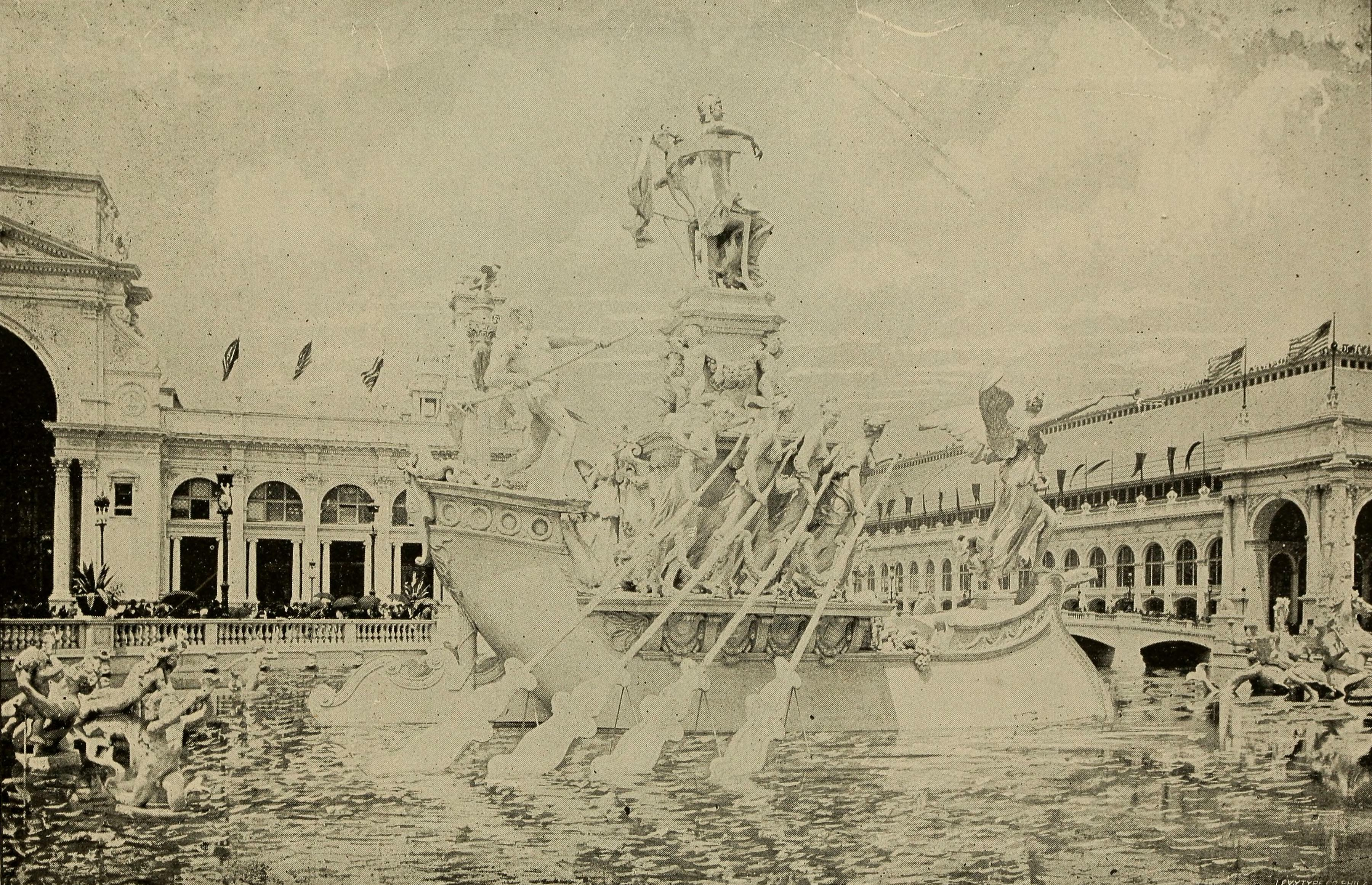 Title: The World's Columbian exposition, Chicago, 1893 Year: 1893 (1890s) Authors: White, Trumbull, 1868-1941 Igleheart, William, (from old catalog) joint author Subjects: World's Columbian Exposition (1893 : Chicago, Ill.) Publisher: Philadelphia and St. Louis, P.W. Ziegler & co Text Appearing Before Image: ains are among the prominent features at theFair. Thousands of people stand at points of vantage about thegreat court each evening to watch the ever-changing beauties ofthese fountains. They are two in number, located on the lowerterraces on either side of the McMonnies emblematical fountain,and are without a rival in ancient or modern days in hydraulic orelectrical design. Supplied from the high pressure system placedfor the fire protection of the Worlds Fair by the Worthingtonpump people, each of these two fountains requires for its own indi-vidual service the full capacity of a 16-inch water main under lOOpounds pressure. Located as they are upon the lower terraces,the necessity arose for operating casemates below the surface levelof the lake. Altogether thirty-eight 90-ampere projector lamps,with burnished silver parabolic reflectors, by their concentratedeffort, illuminate in the most pleasing manner the ever-varyingstreams of water projected through the nearly 400 apertures pro- Text Appearing After Image: ;o8 EIvECTRICITY. vided. The entire manao-ement of these fountains Is directed fromthe northeast tower of Machinery Hall. The machinery used for the fountains is also used for chargingthe electric launches. There are fifty of these beautiful little boats,averaging forty feet long and having a carrjang capacity of thirtypeople. After hvQ or six hours charging each little launch will havestored away in its hold about forty horse-power hours of effectiveelectrical energy, sufficient for ten or twelve hours continuous run.This charo-ino- station, located south and east of the Aericultural